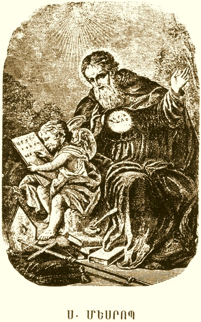 Mesrob Mashtots. Picture of XVII century